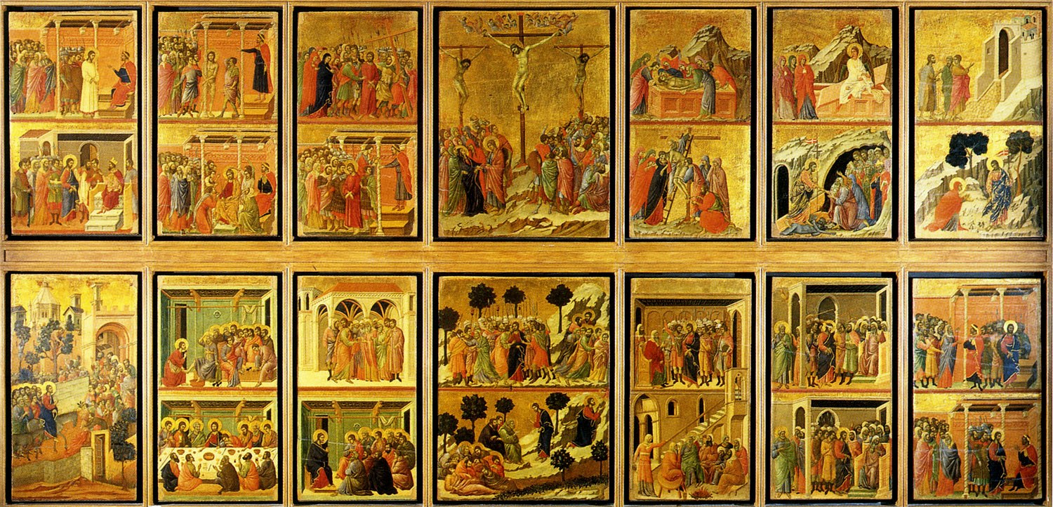 Scenes from Passion of Christ Duccio